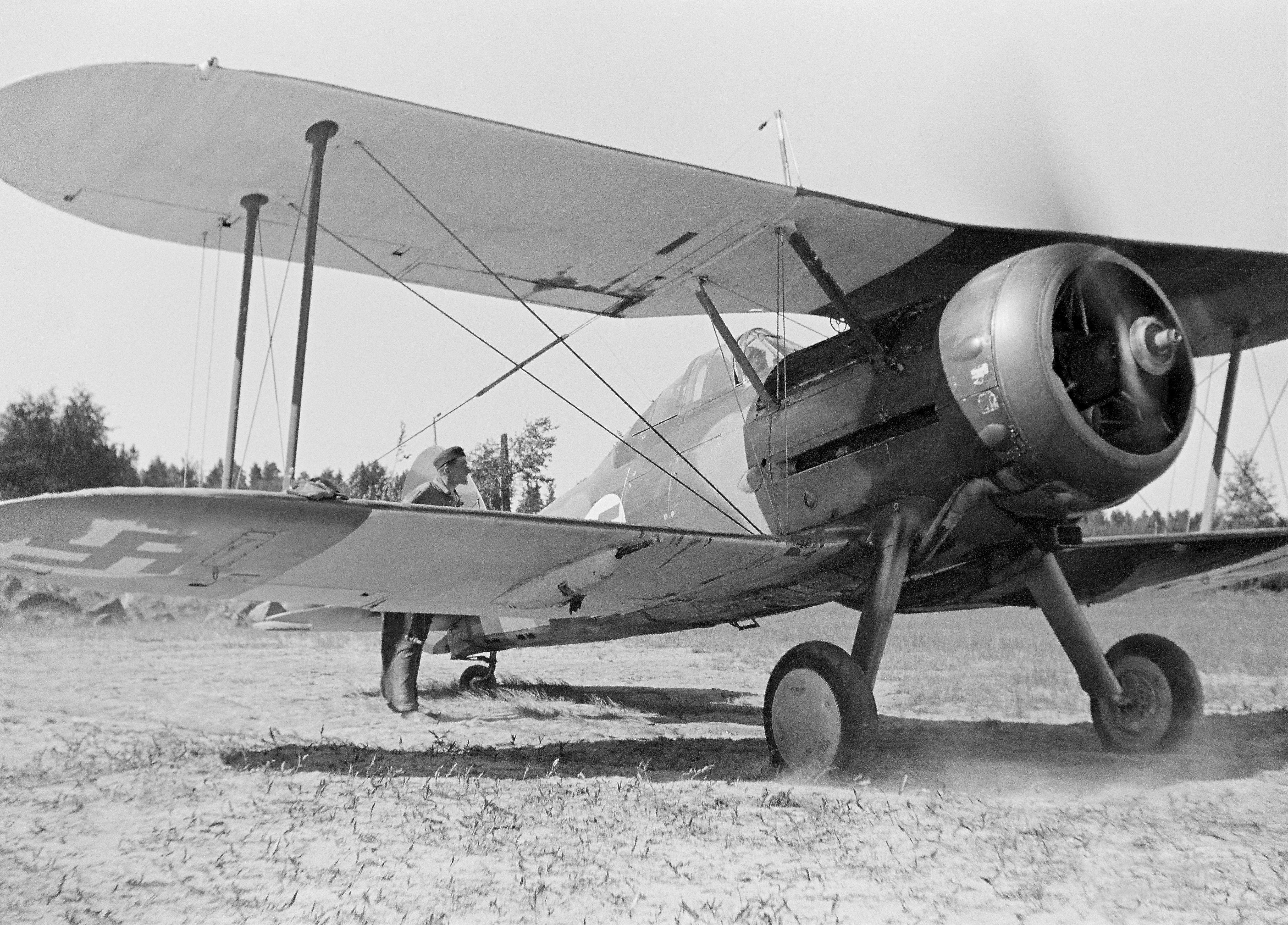 Gloster Gladiator II just before takeoff in Joensuu, Finland.